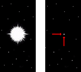 Nova: Before and after images